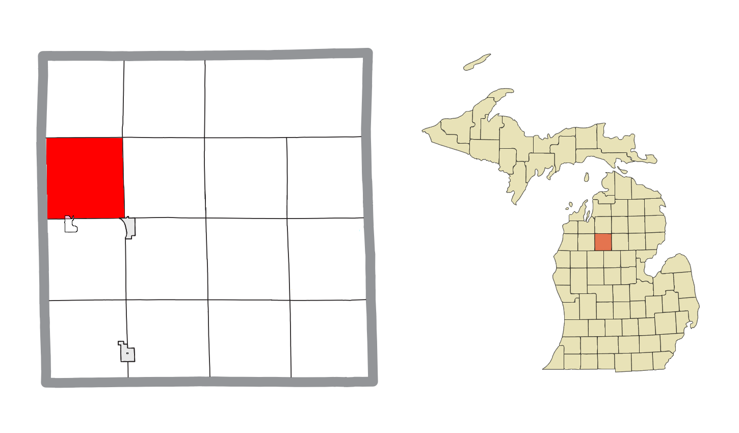 Caldwell Township, MI